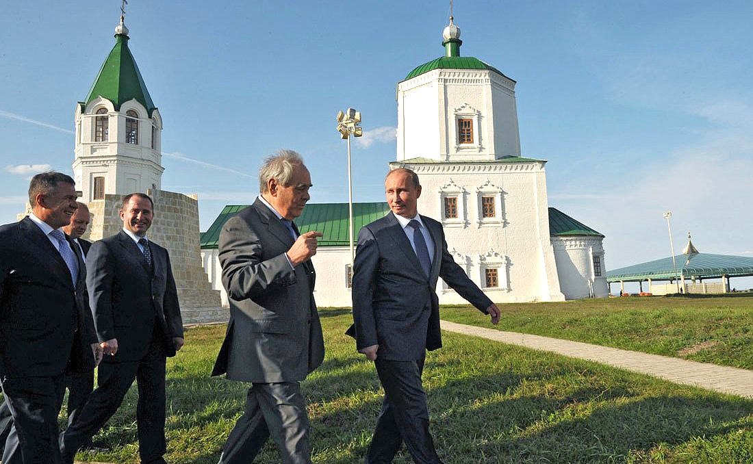 Vladimir Putin visits the museum-historical reserve in Bolgar, Republic of Tatarstan